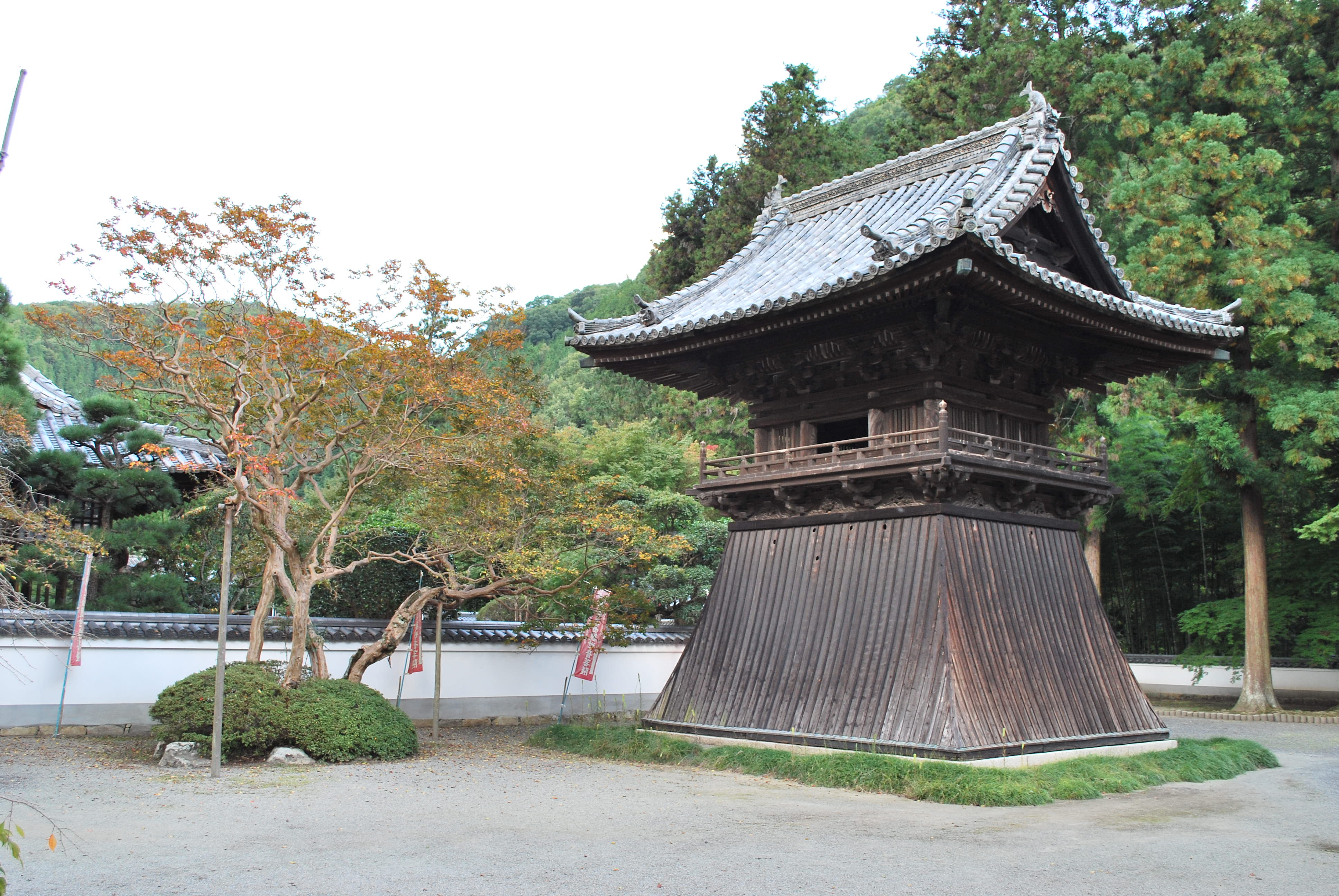 Belfry and a crape myrtle tree, Shōraku-ji